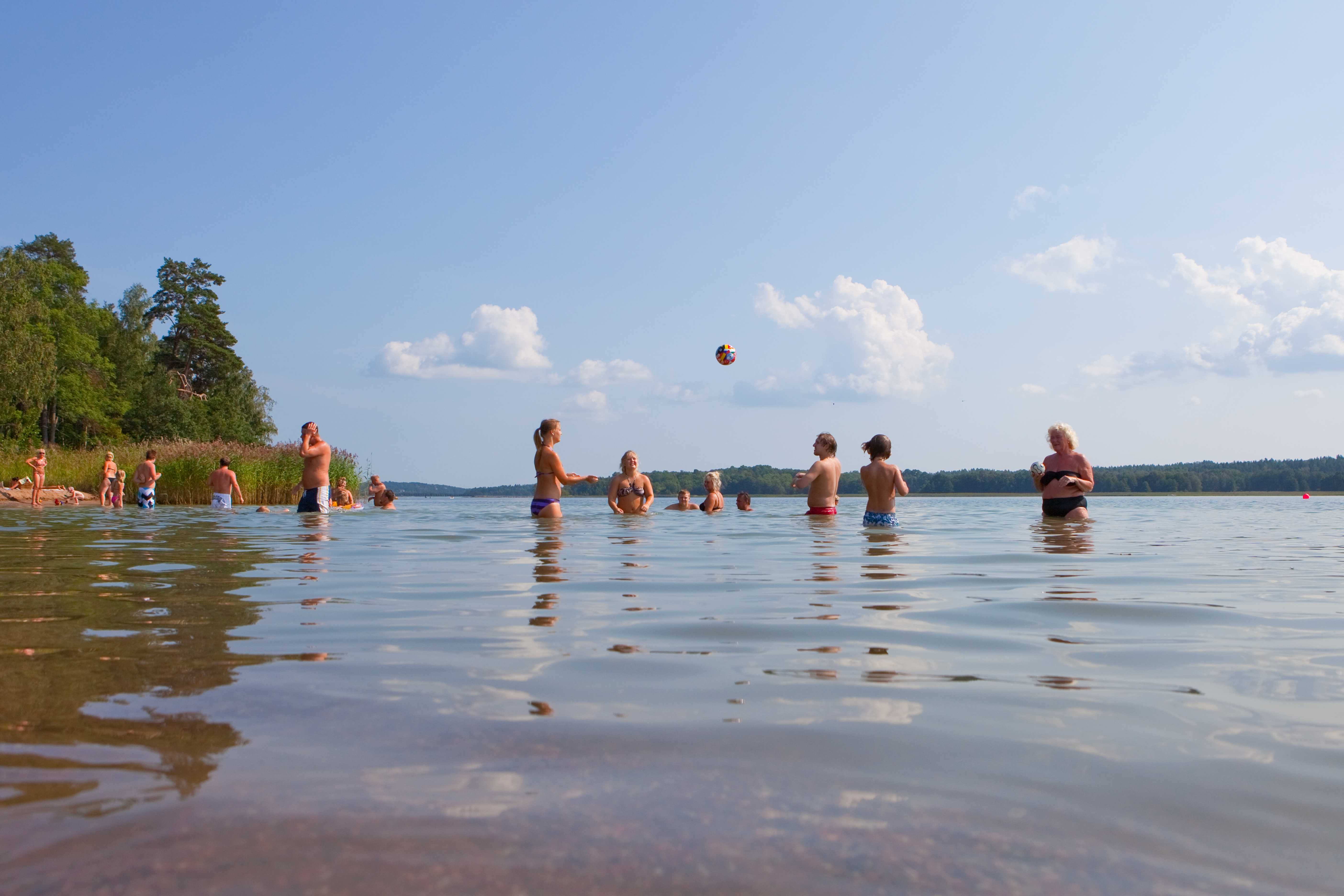 Vaxholm, summer of 2010